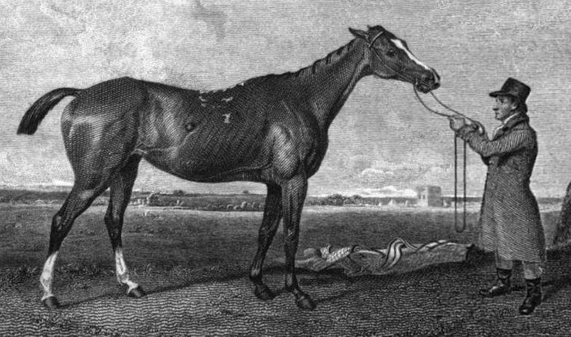 Rhoda, Thoroughbred racehorse and winner of 1816 1000 Guineas.